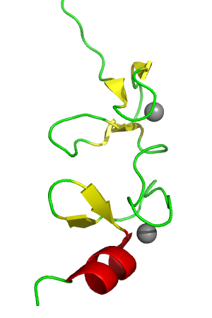 Structure of the 4th LIM domain of Pinch protein Created by me, from PDB file 1NYP, using PyMol.